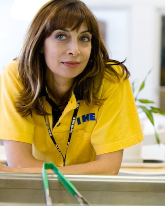 Illeana Douglas as the creator/producer/star in webseries Easy to Assemble Easy_to_Assemble